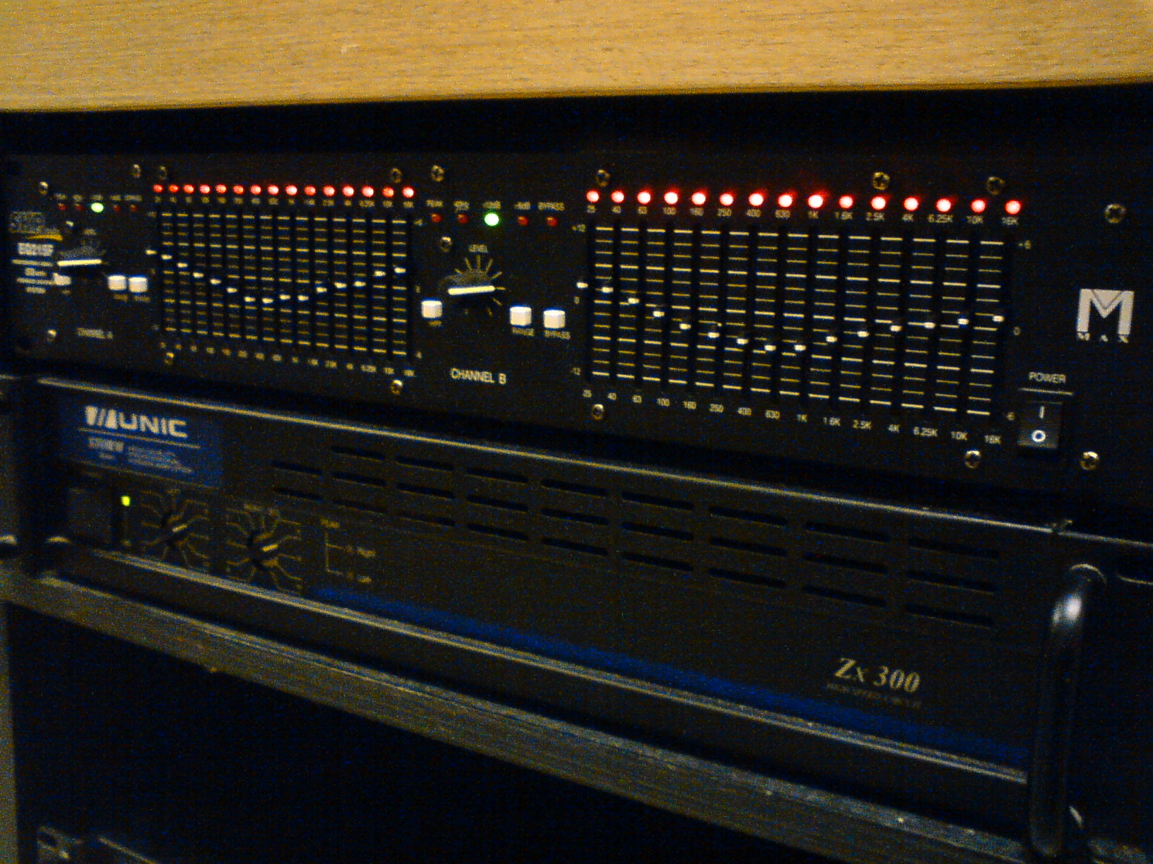 Stereo graphic equalizer, 15 bands per channel.